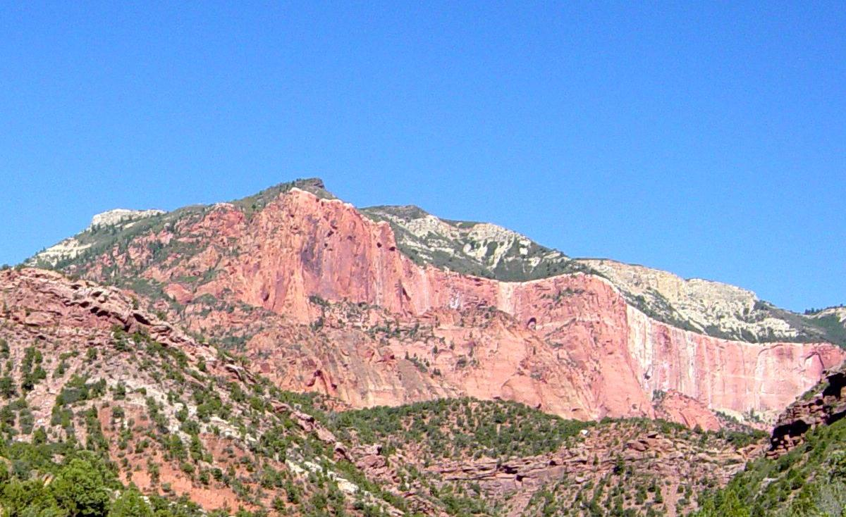 Horse Ranch Mountain, the highest point in Zion National Park, summit at 8,726 foot (2,660 m). Photo taken by Daniel Mayer in August 2004.